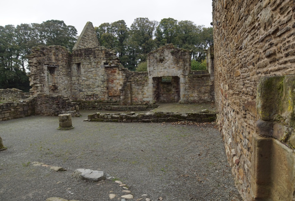 Basingwerk Abbey, Wales. Warming room seen from north.